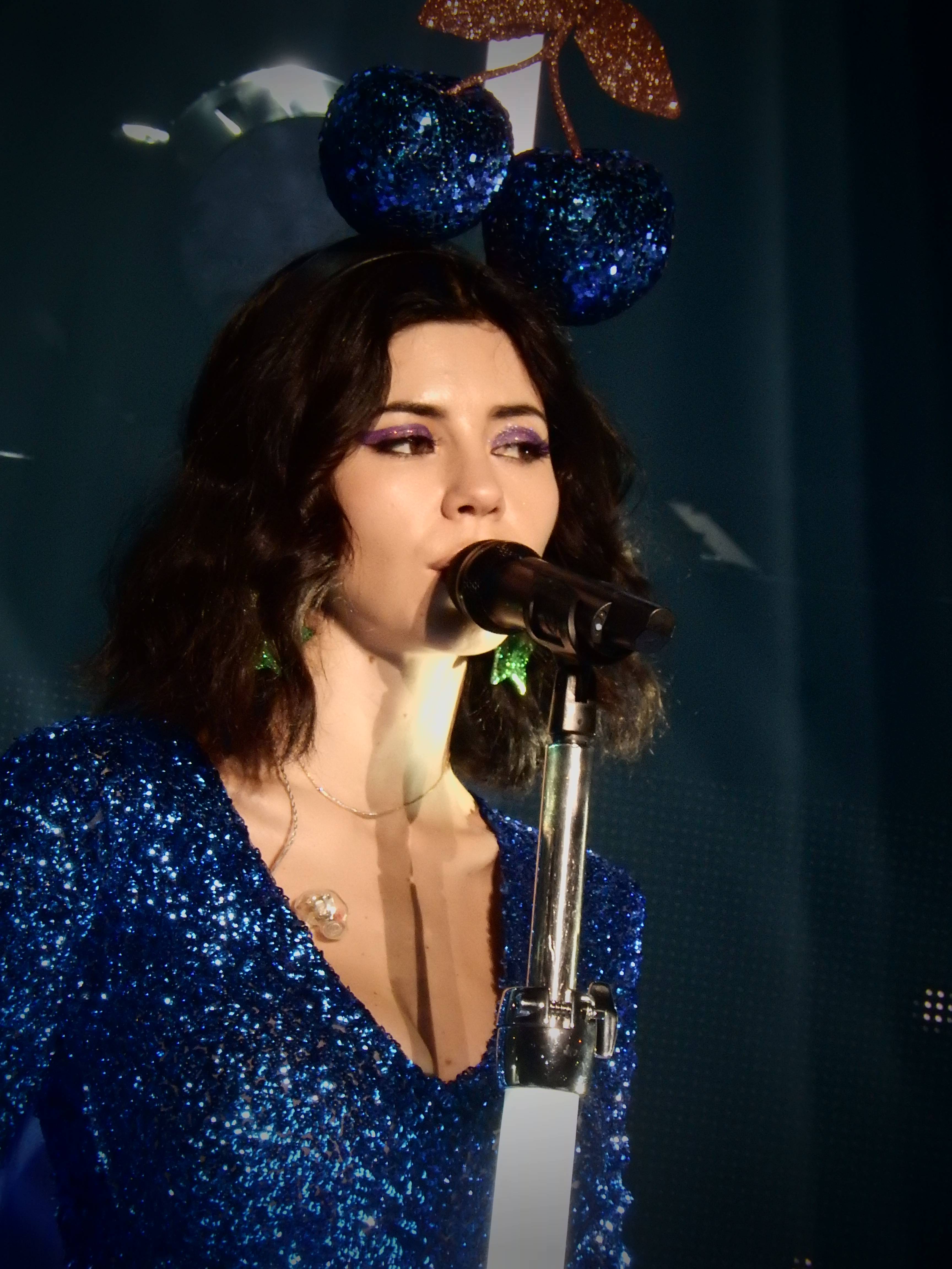 Marina performing at Roundhouse on February 21, 2016.